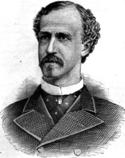 John Henry Camp, Congressman from New York